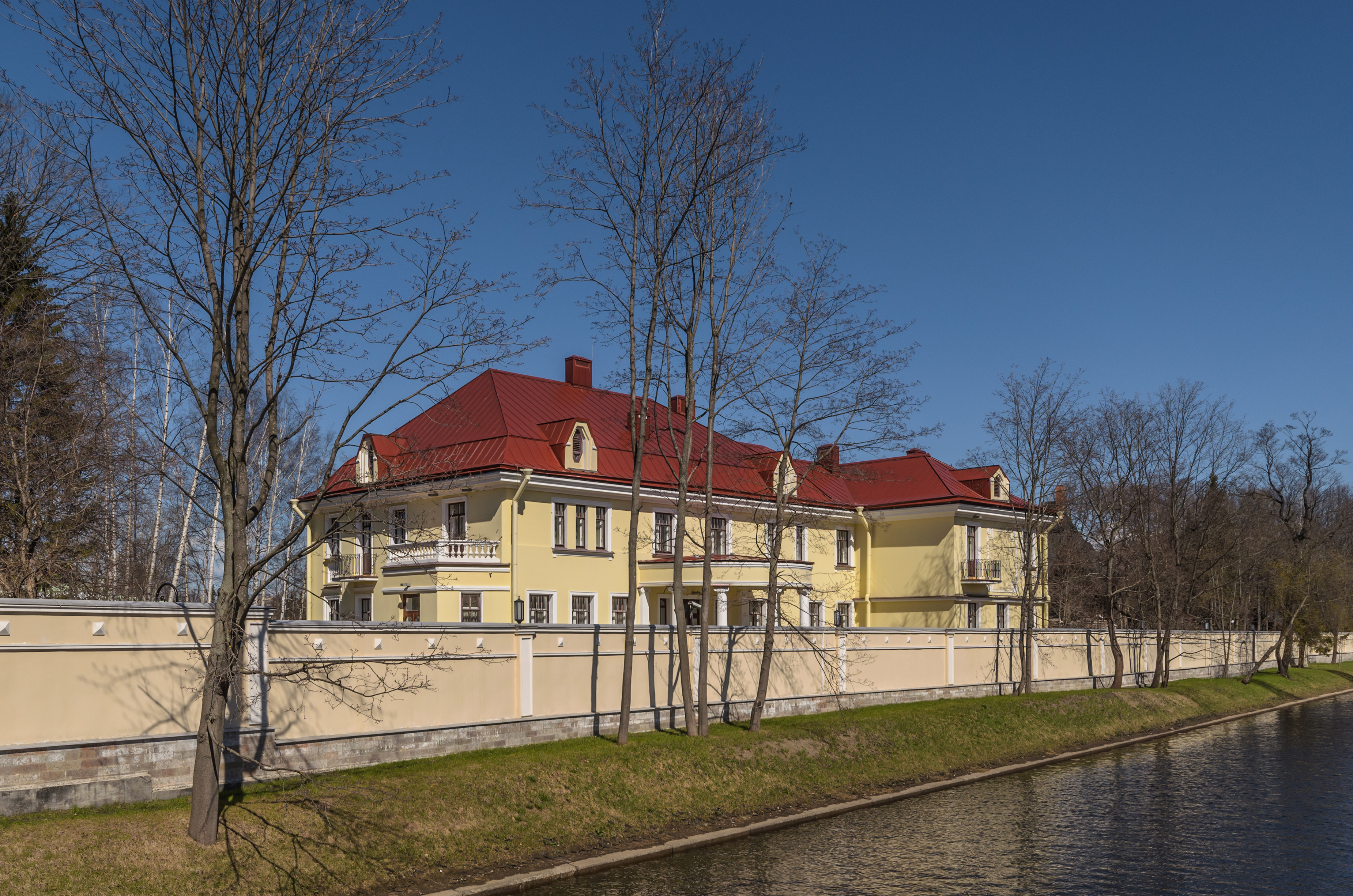 A. G. Soloveychik's manor in Saint Petersburg